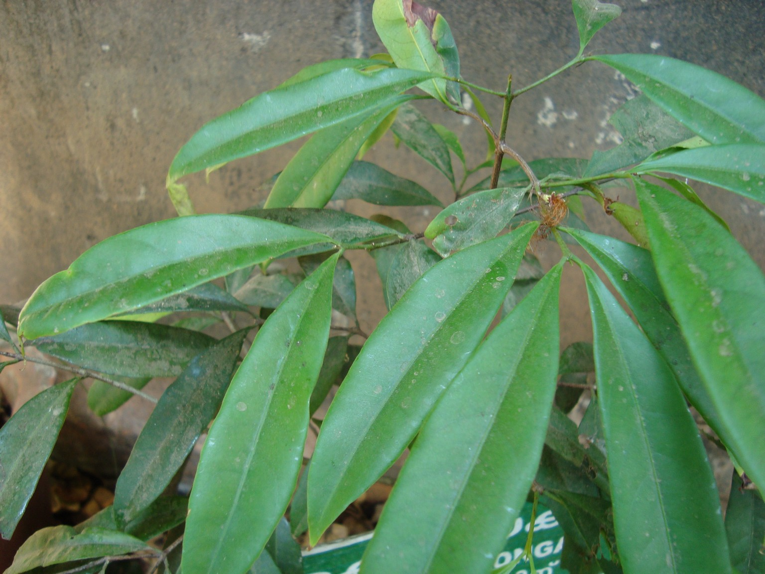 At Thrissur, Kerala, India